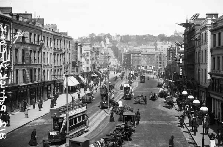 NLI Ref.: L_CAB_00812